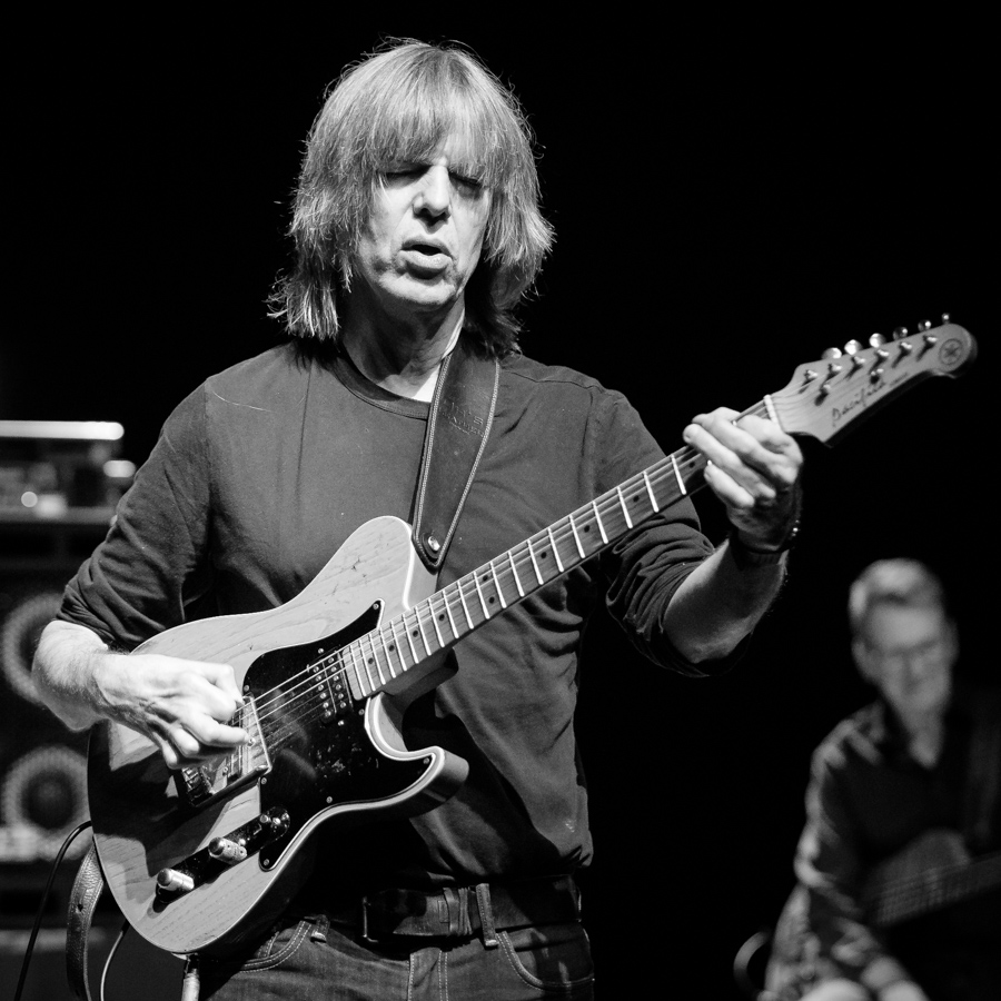 Mike Stern at Kongsberg Musikkteater. The concert was part of Kongsberg Jazzfestival and took place on 07. July 2018 in Kongsberg. Lineup:Mike Stern (guitar)Randy Brecker (trumpet)Tom Kennedy (bass guitar)Dennis Chambers (drums)